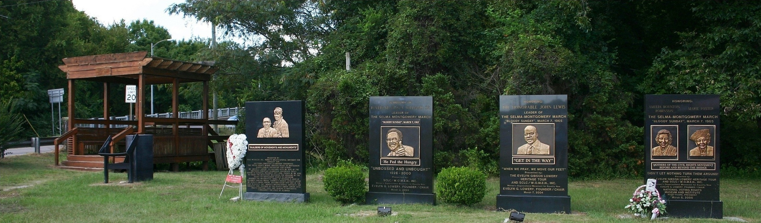 Leaders of the Selma-Montgomery March